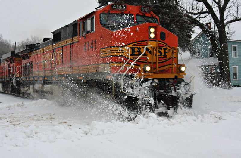 A BNSF heads west past the Rochelle Train Park.